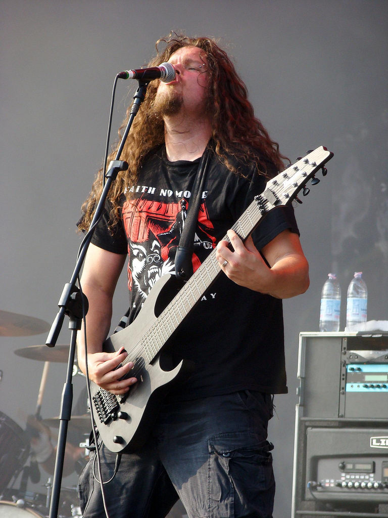 Guitarist Mårten Hagström from the Swedish band Meshuggah performing on a live show with Meshuggah in Bolzano, Italy - June 29, 2008.